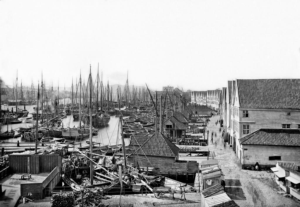 Bryggen in Bergen in the late 19th century